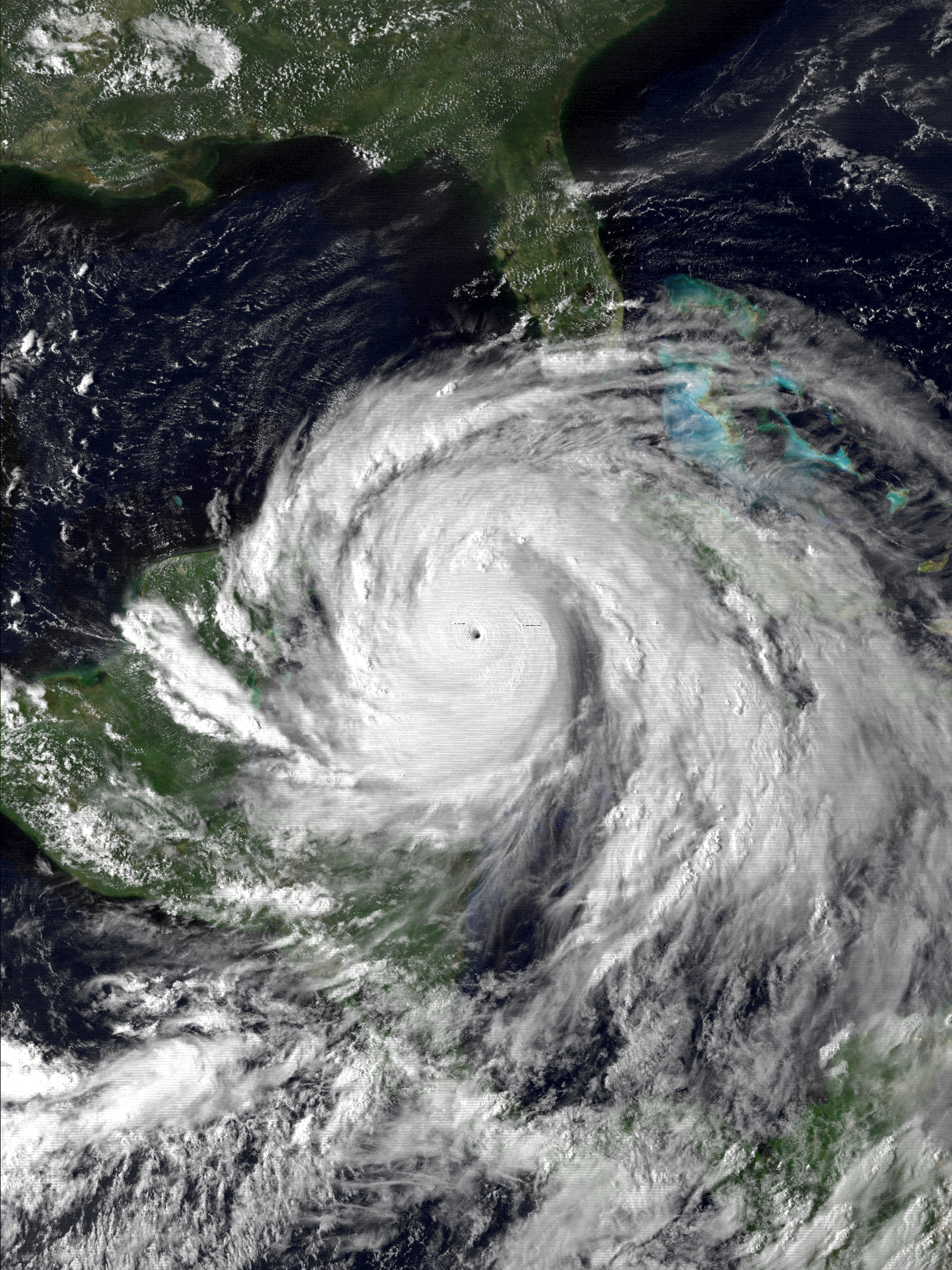 Hurricane Gilbert on September 13, 1988